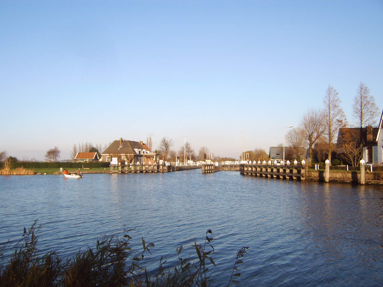 Tolhuissluis lock, on the intersection between Drecht, Aarkanaal and Amstel-Drechtkanaal, about 30 kms south-southeast of Amsterdam. See Tolhuissluis. Picture taken from due south.